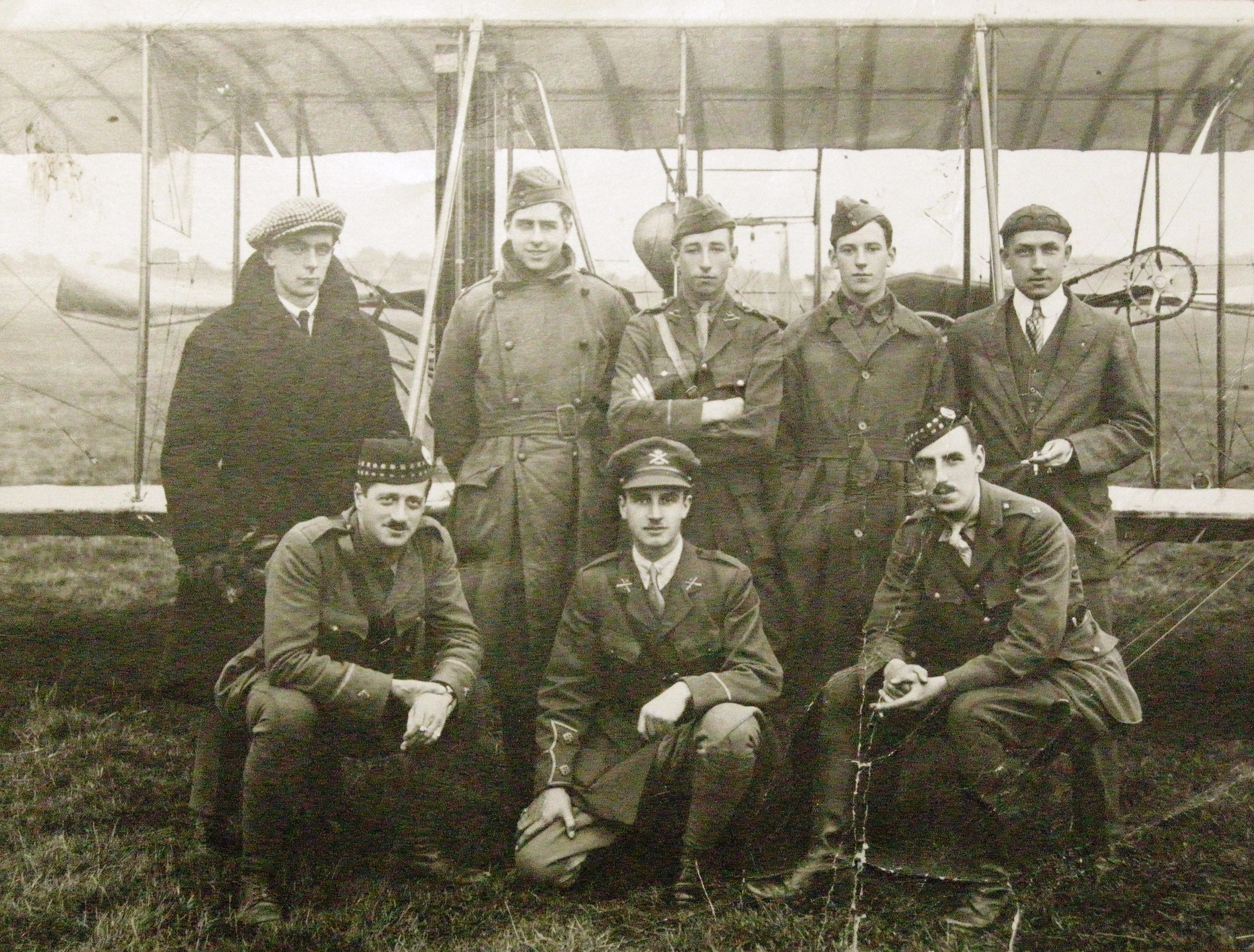 George William Beatty (far right) and unidentified colleague with six student pilots destined for the Royal Flying Corps at Hendon Aerodrome, Aug. 1916. Front centre is Lt. Norman A. Birks: others unidentified. Aircraft is a Beatty-Wright (Wright Model B) biplane.